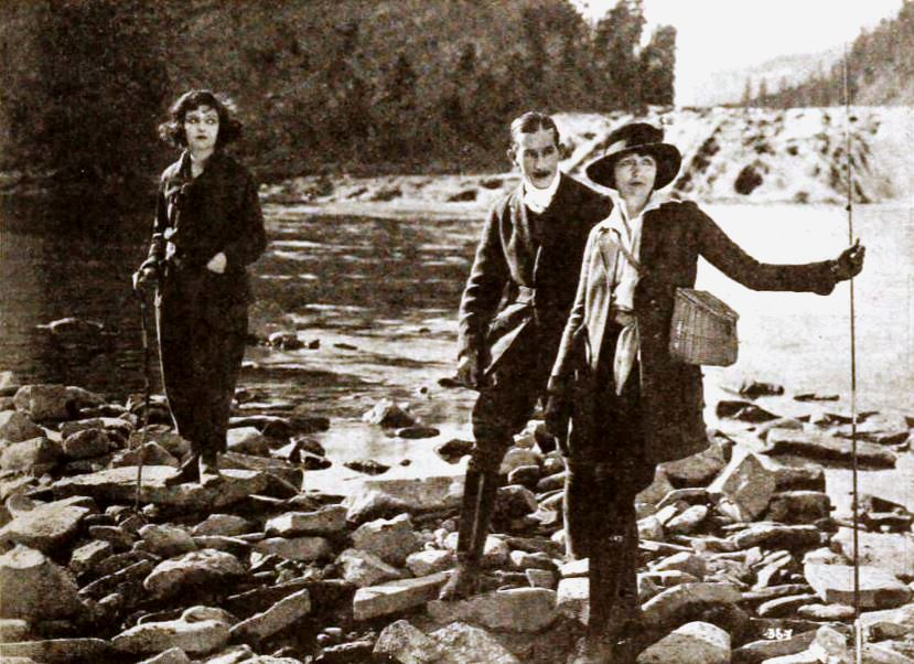 Still from the American drama film Conceit (1921), on page 63 of the August 14, 1920 Exhibitors Herald. The caption in the magazine uses an early working title for the film, Wilderness Fear.